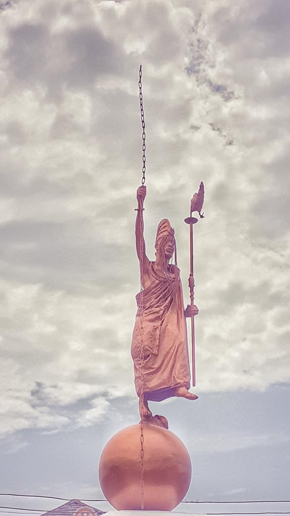 A deity at the Ooni of Ife palce